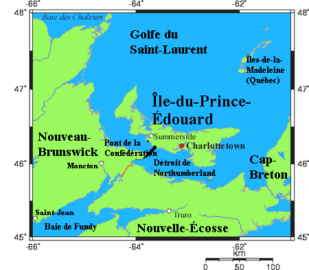 Map of the Canadian Maritimes region showing the Confederation Bridge, between P.E.I and N.B, translated in French from Image:Pei-map.png from User:Montrealais.